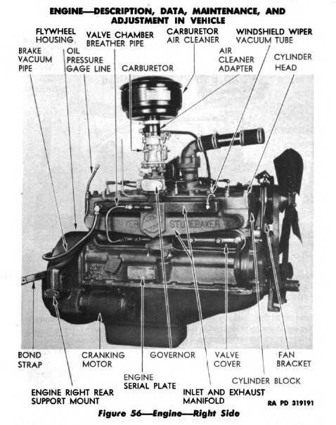 Hercules JXD truck engine from US Army TM 9-807